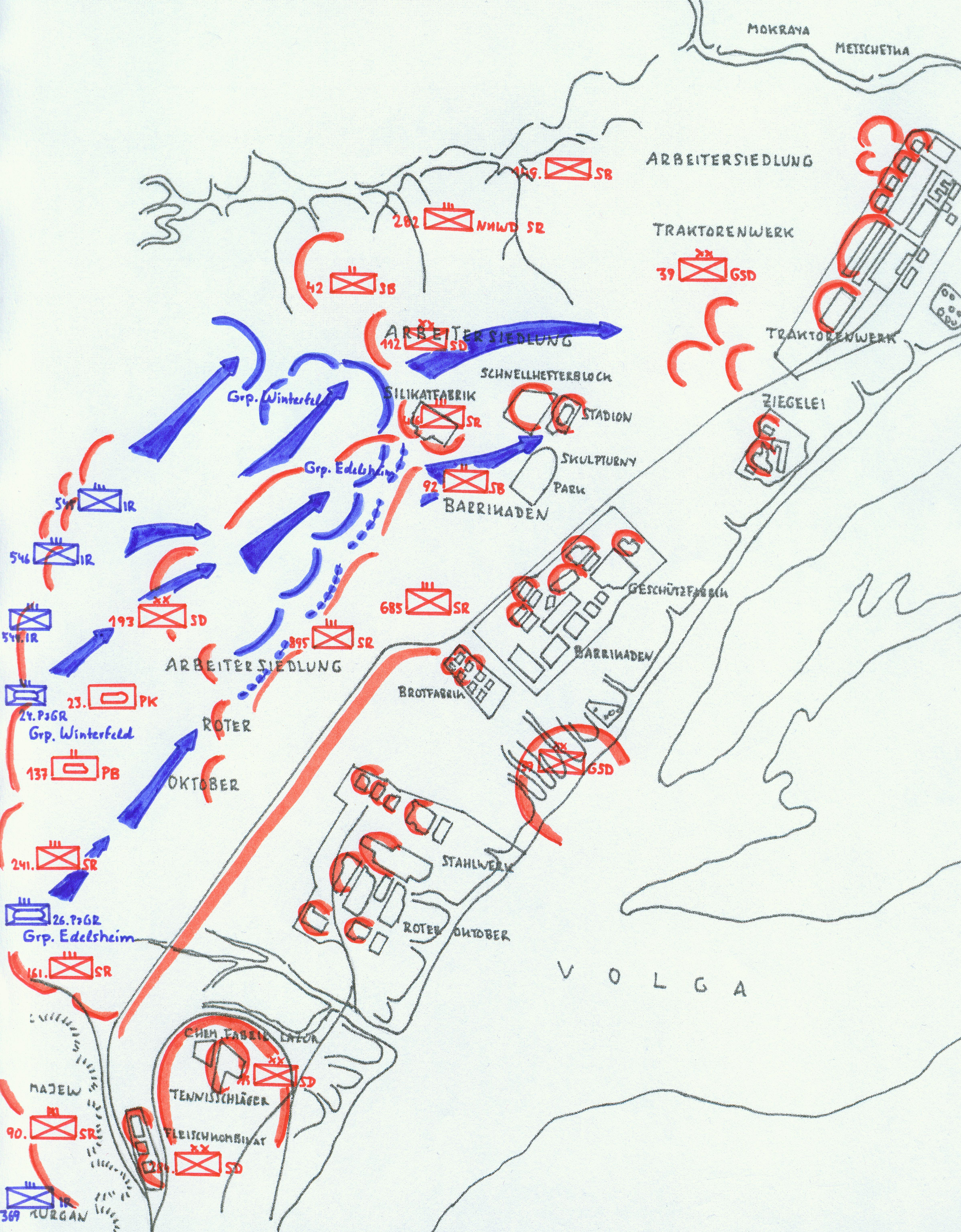 sketch drawn-out according to Glantz